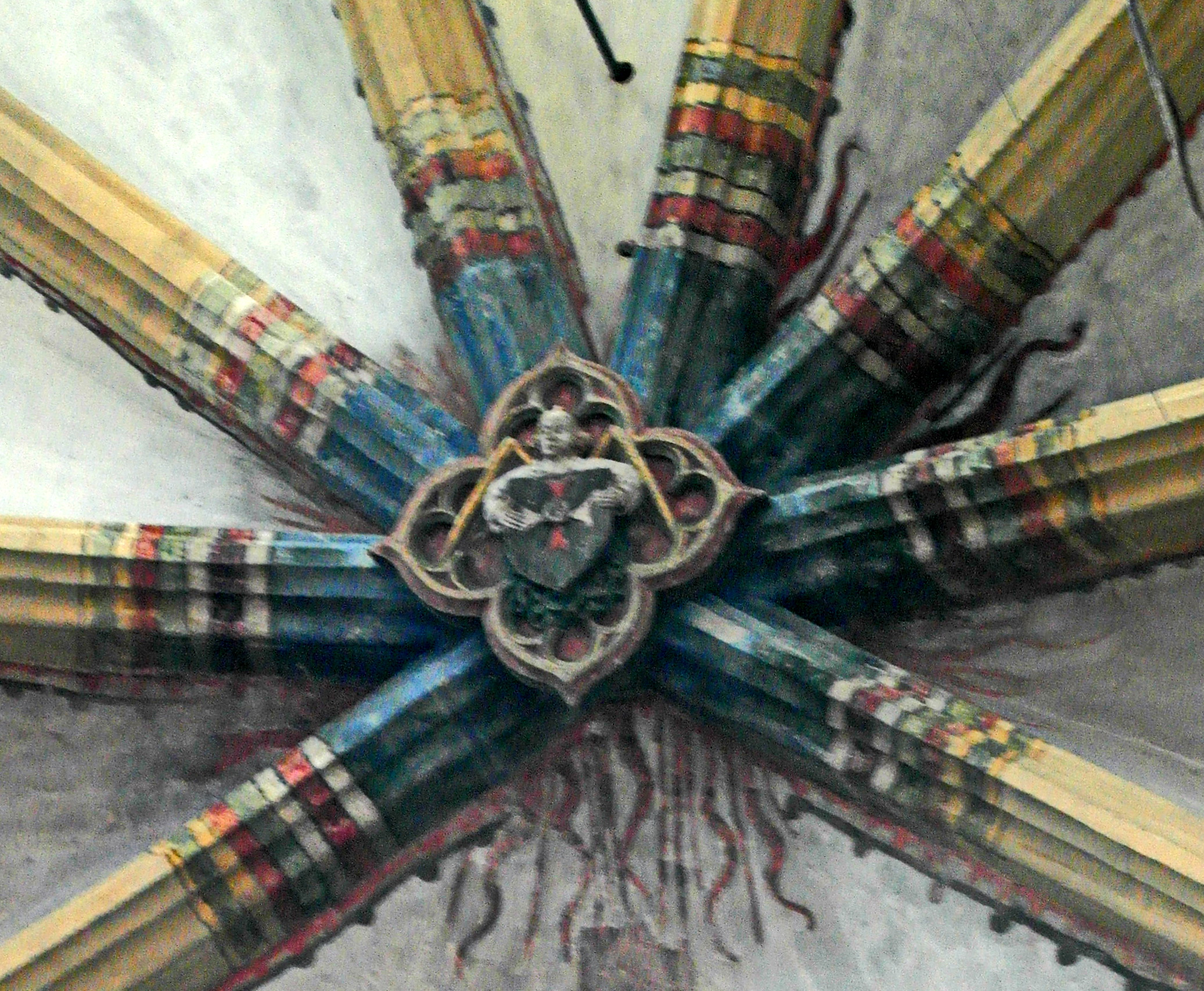 Painted Gothic keystone and vaults of Kruisherenkerk in Maastricht, the Netherlands. The Gothic church and monastery of the Croziers (or Crutched Friars) dates from the 15th century and was converted into a luxury hotel (Kruisherenhotel) in 2003-05. The vaults were painted by master Gerardus in 1461 but probably restored after the destructions of 1579.